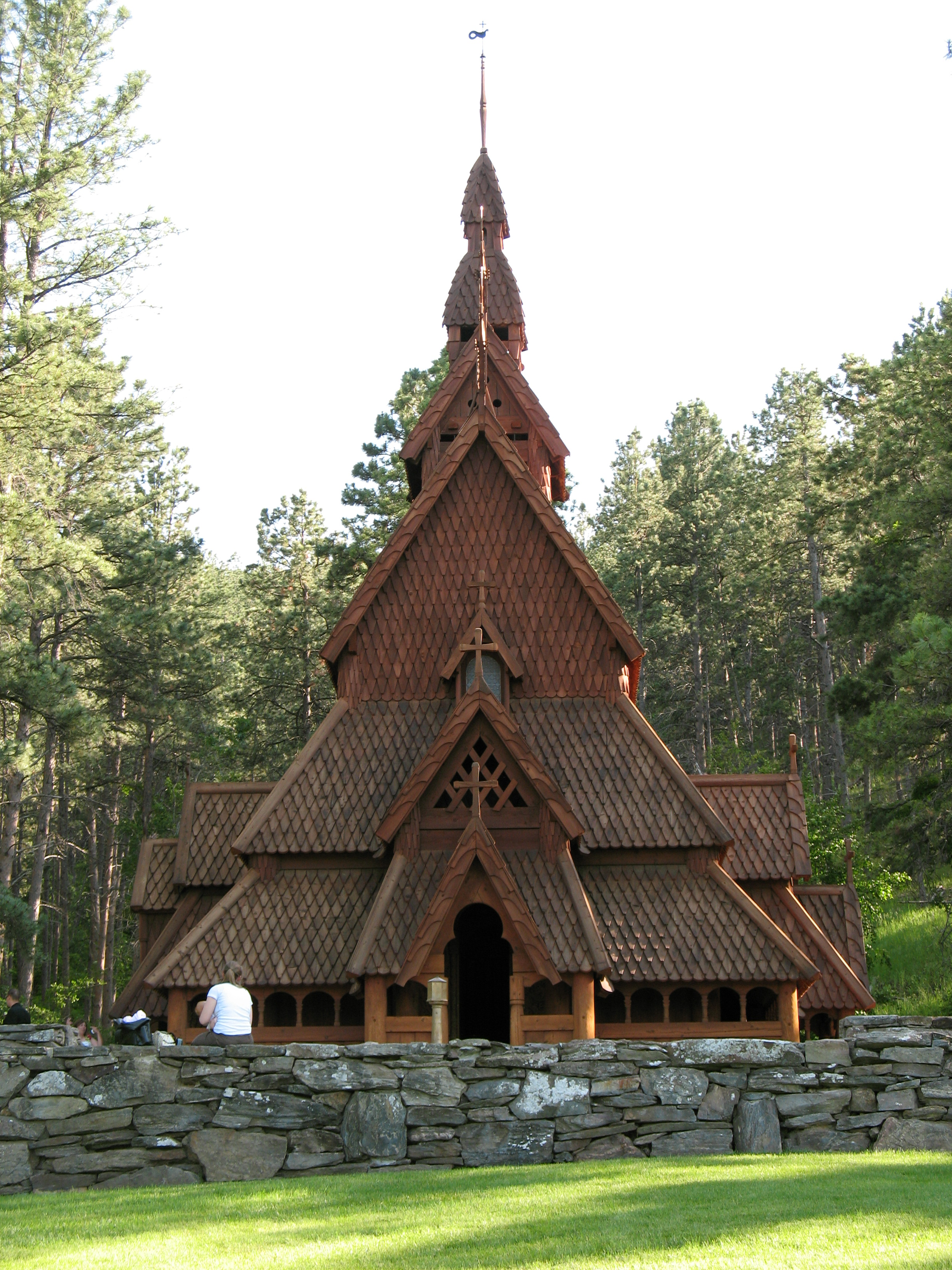 The front of the Chapel In The Hills in Rapid City, SD.